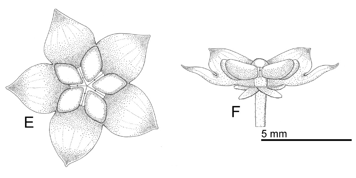 Hoya rigidiflora S.Rahayu & Rodda 2019, Asclepiadoideae, Apocynaceae, from Rahayu & Rodda (2019: Fig. 1 C D)